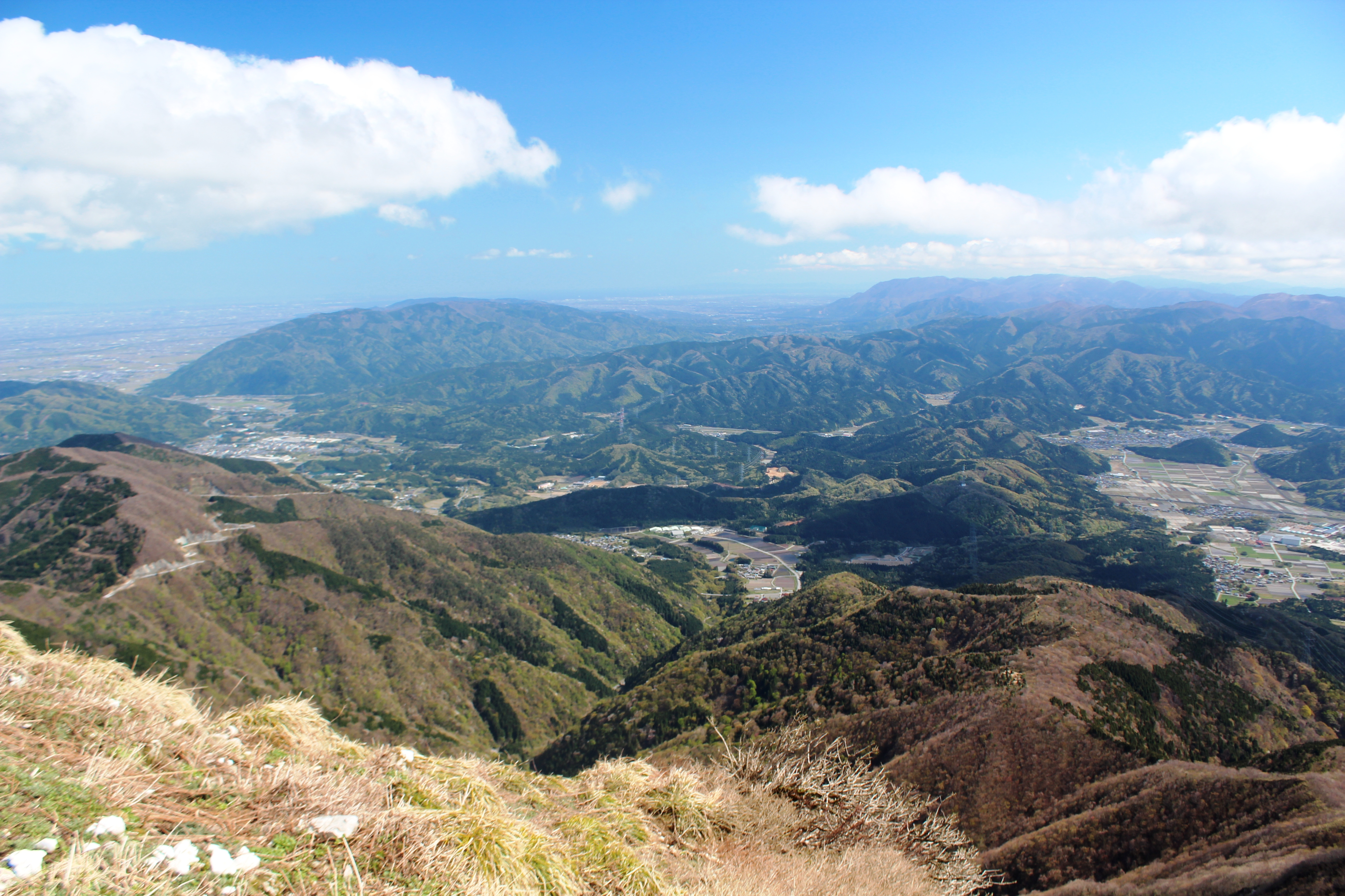 Yoro Mountains and Suzuka Mountains seen from Mount Ibuki